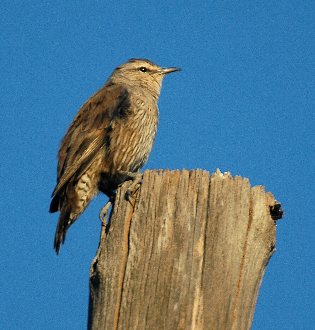 Brown Treecreeper (Climacteris picumnus) Bowra, SW Queensland, Australia